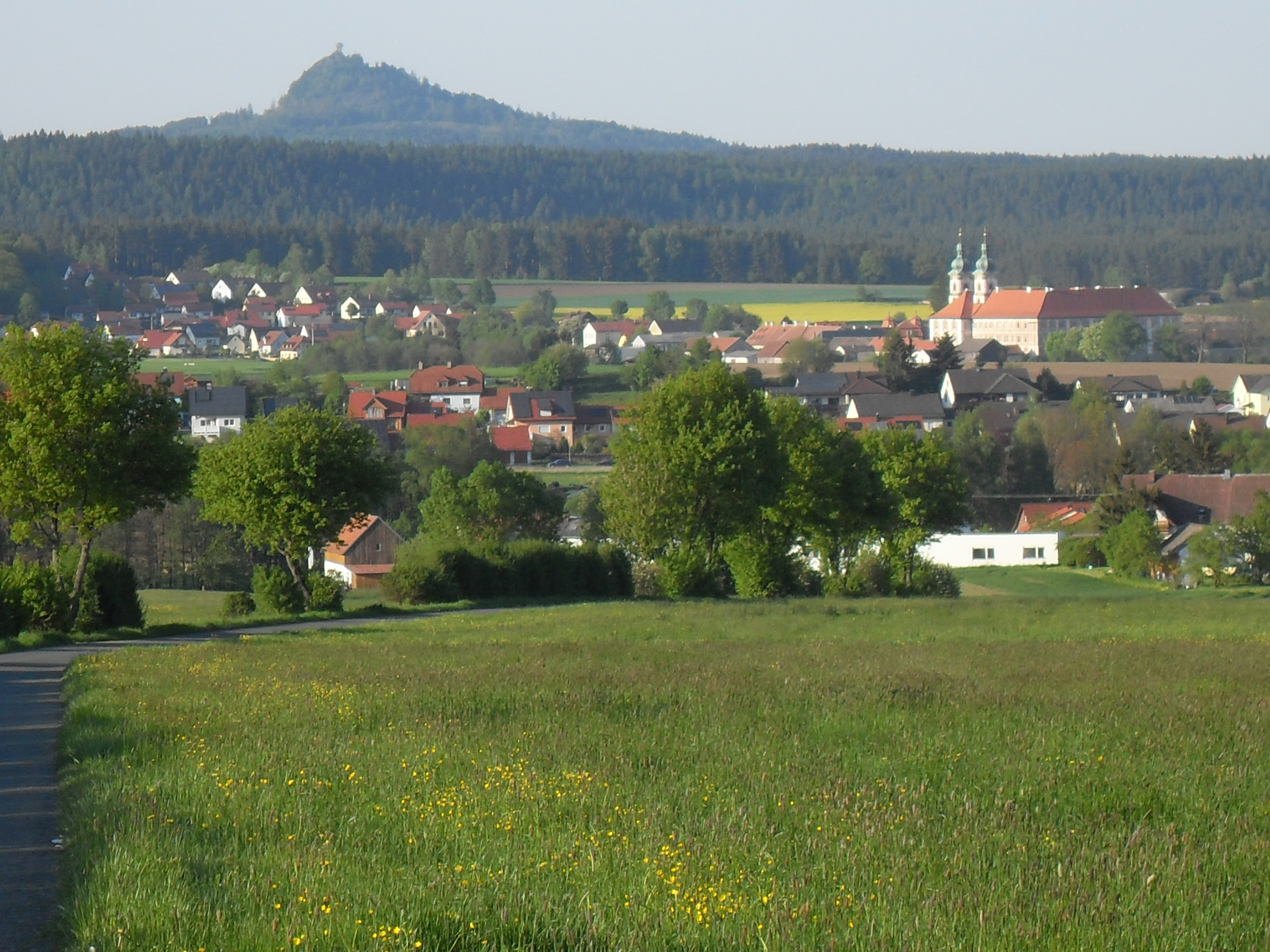 The Kloster Speinshart with the Rauher Kulm behind it.